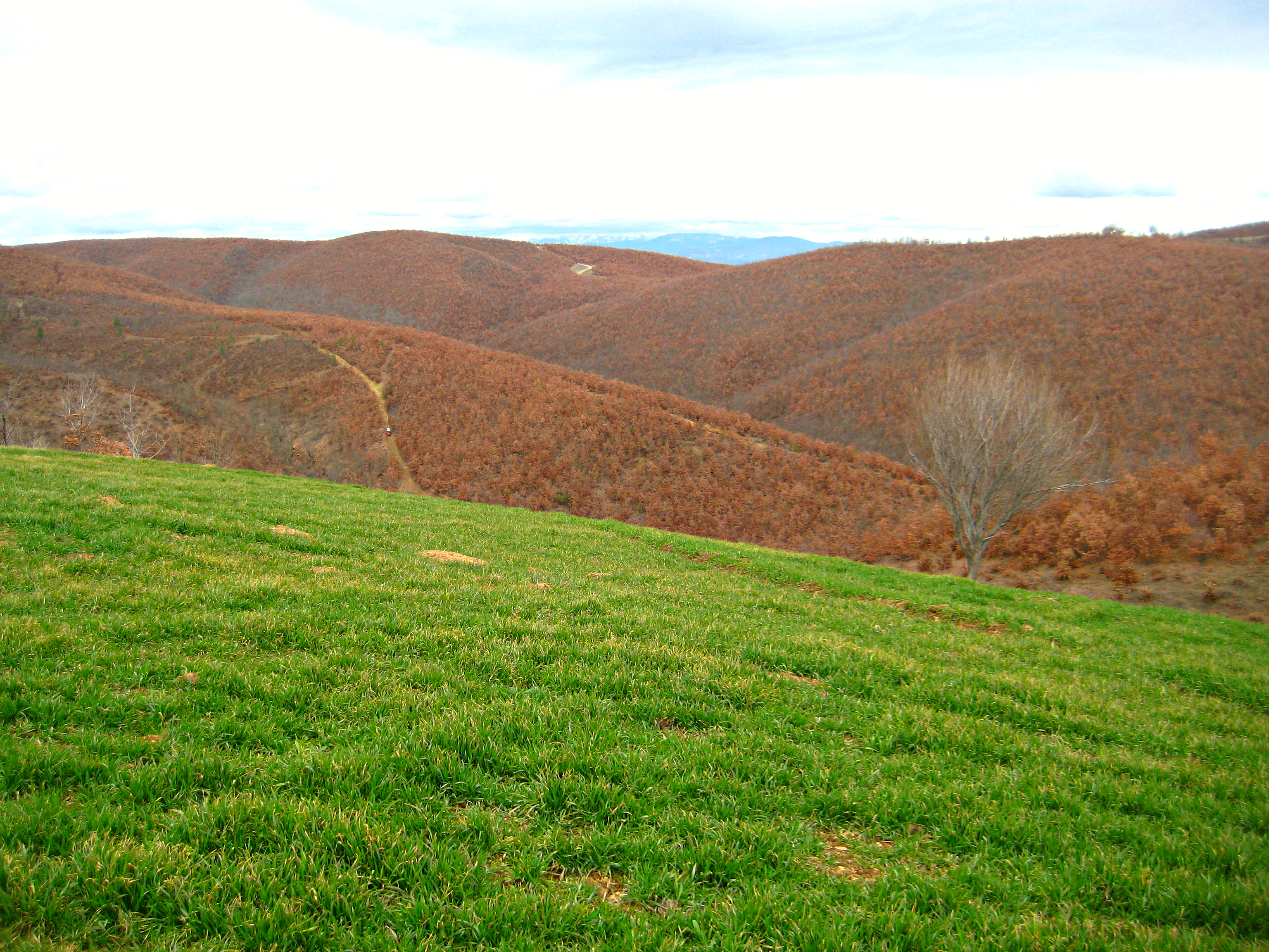 Kotorr